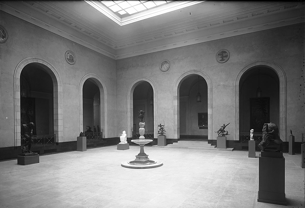 Art Gallery of Ontario sculpture court. Toronto, Canada.